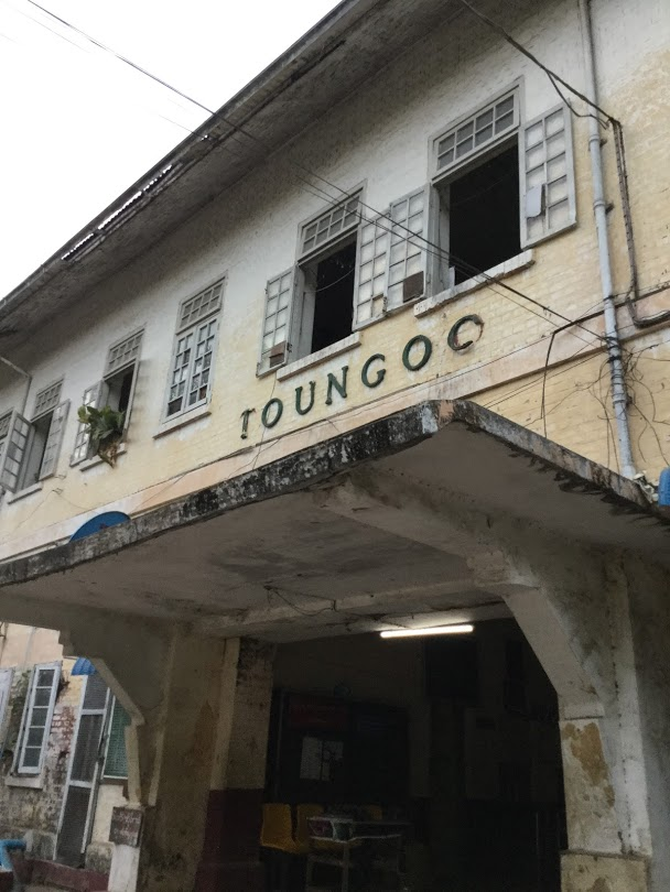 Toungoo Railway Station Myanmar